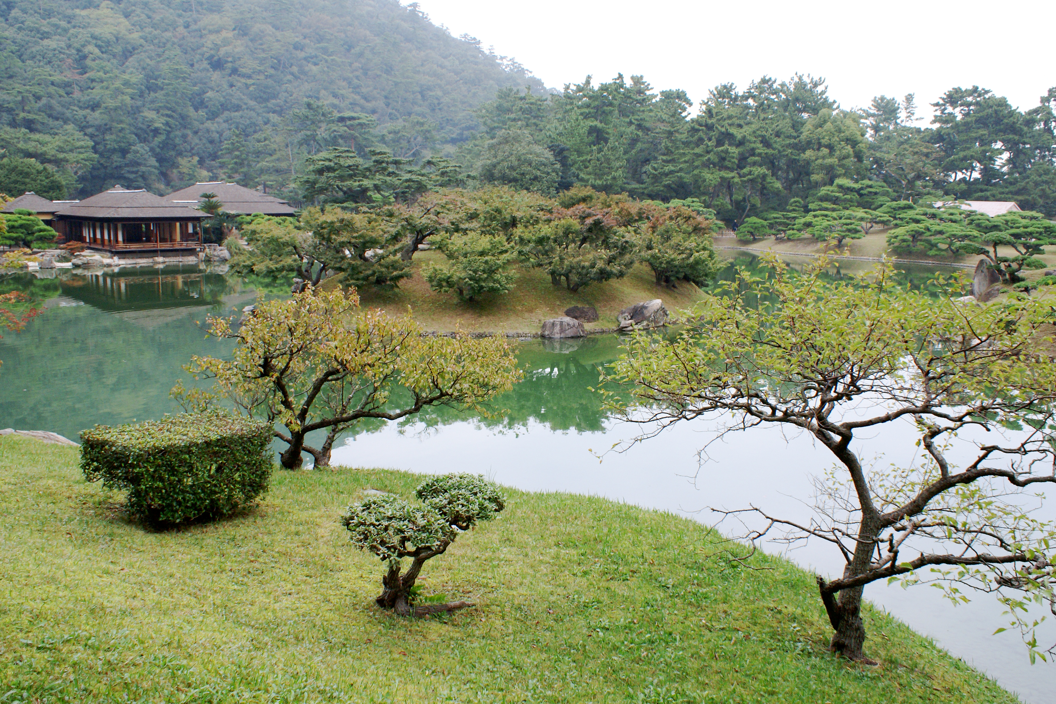 Ritsurin Garden in Takamatsu, Kagawa Prefecture, Japan